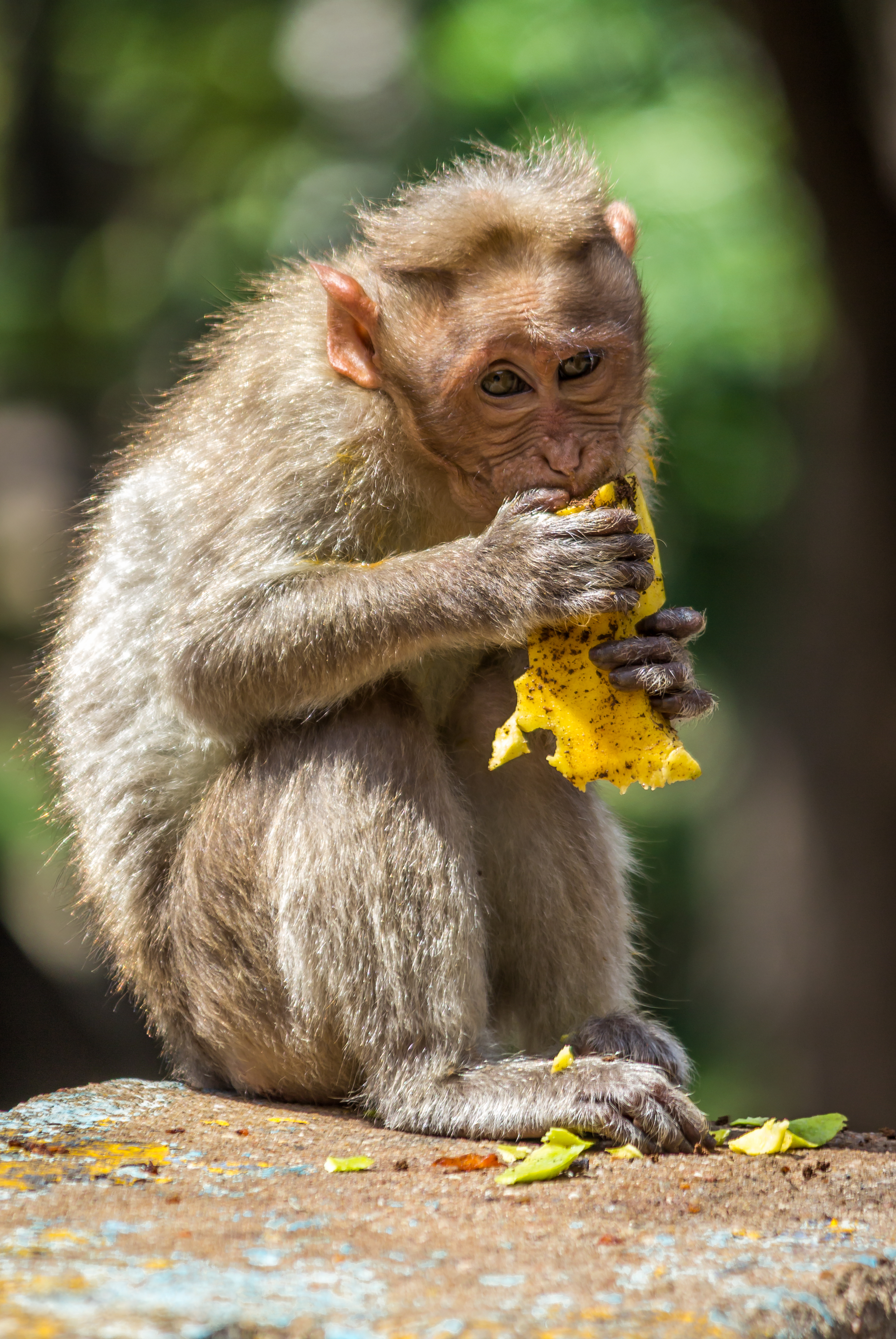 A mother monkey having mango near Ettiseri Kanmai Lake, Tamil Nadu.Often we throw stone or show something to take them flight but think, they also have a stomach like we do. We can earn and go to stores to buy but they can't. Let's support humanity !